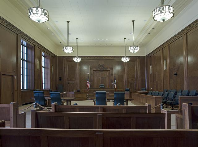 The second floor courtroom in the United States Courthouse in Davenport, Iowa